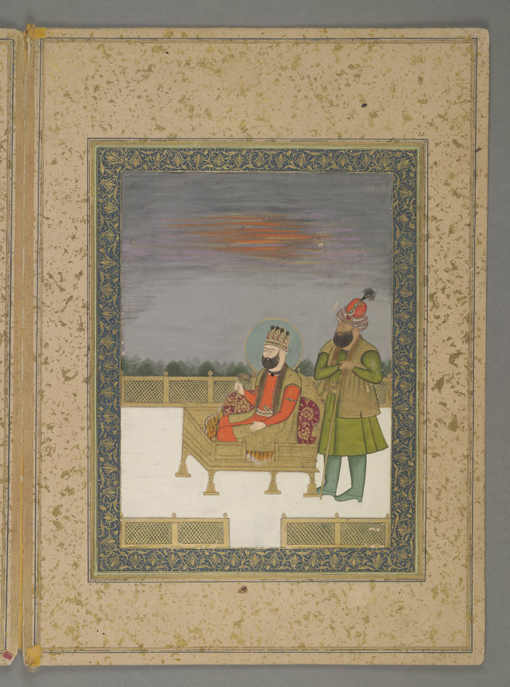 Portrait of an emperor (Ahmad Shah Bahadur 1725-1775?) enthroned, facing left. Watercolour from an album of Indian pictures. Shelfmark: MS. Ouseley Add. 166